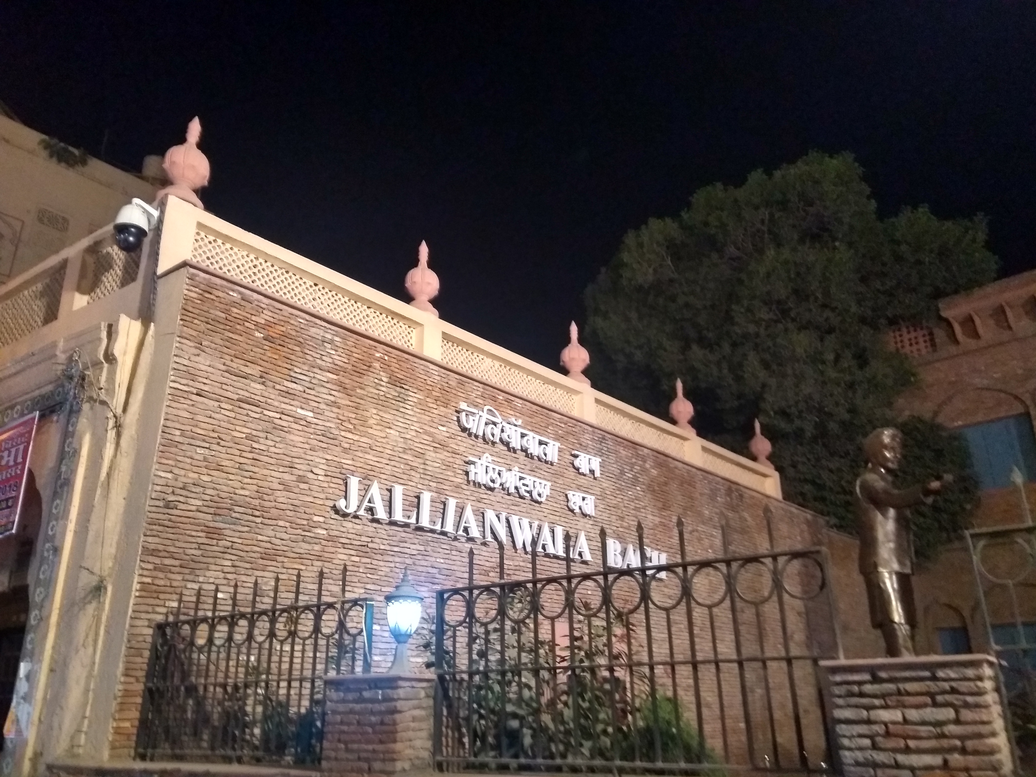 Jallianwala Bagh Memorial in Amristsar